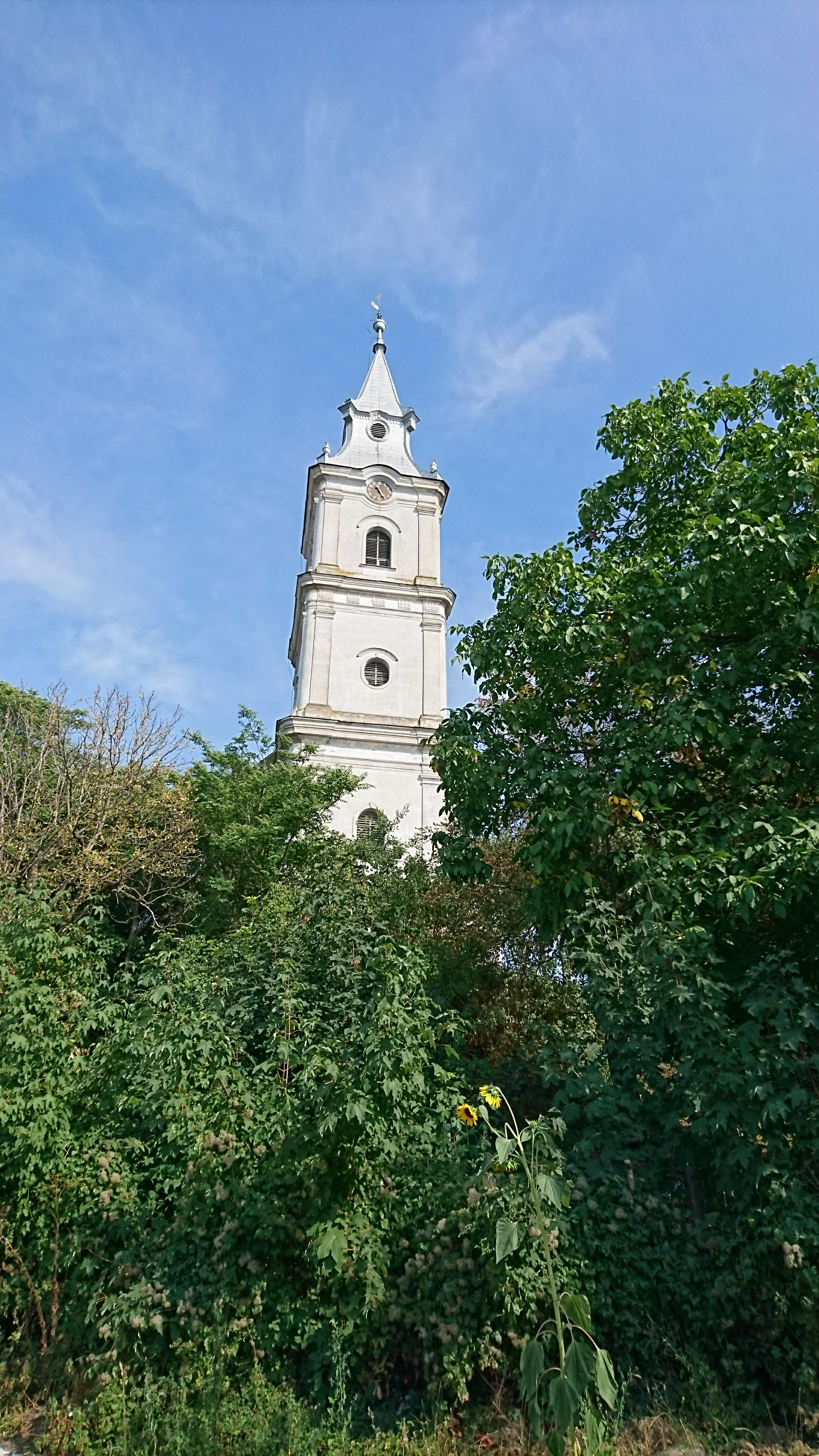 Biserica Reformată din Tășnad - vedere frontală a turnului